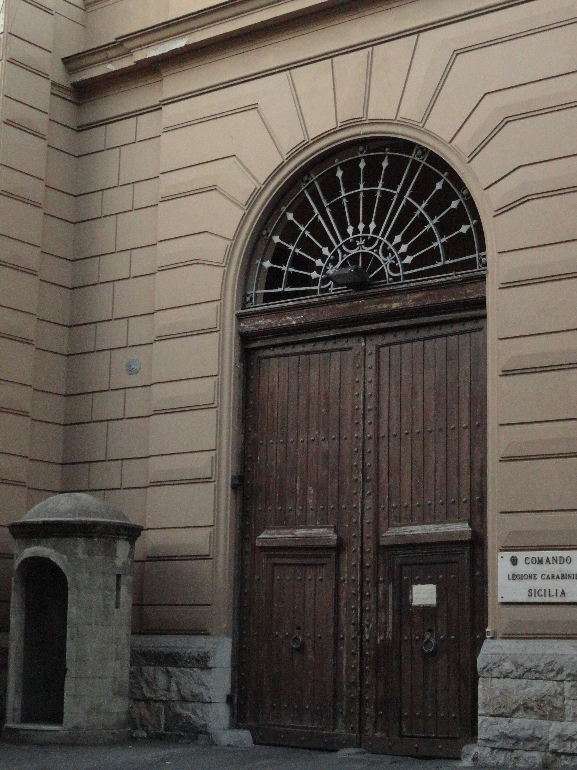 The gate to the Legione Carabinieri of Sicilia command in Palermo, Italy.